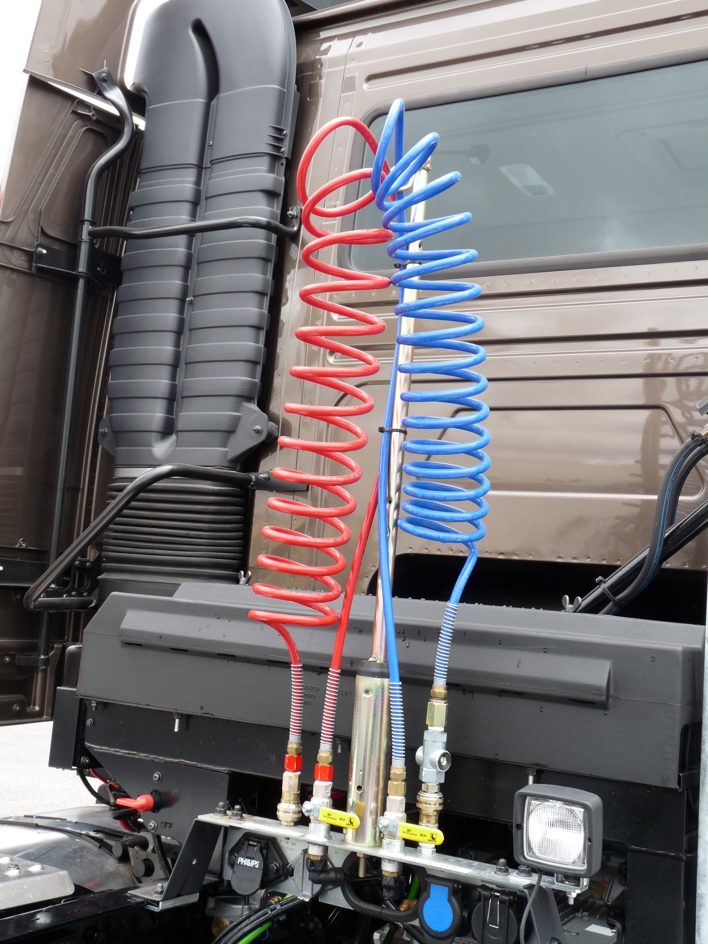 Rear view of Volvo FM V2 Mk2 prime mover cabin, the semi trailer air connection lines ("suzies") clearly visible.